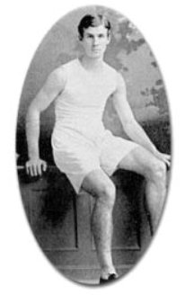 Percival Molson was an athlete studying at McGill University. He died during the First World War. He had let a donation of 75 000 dollars to McGill University for the construction of a Stadium.